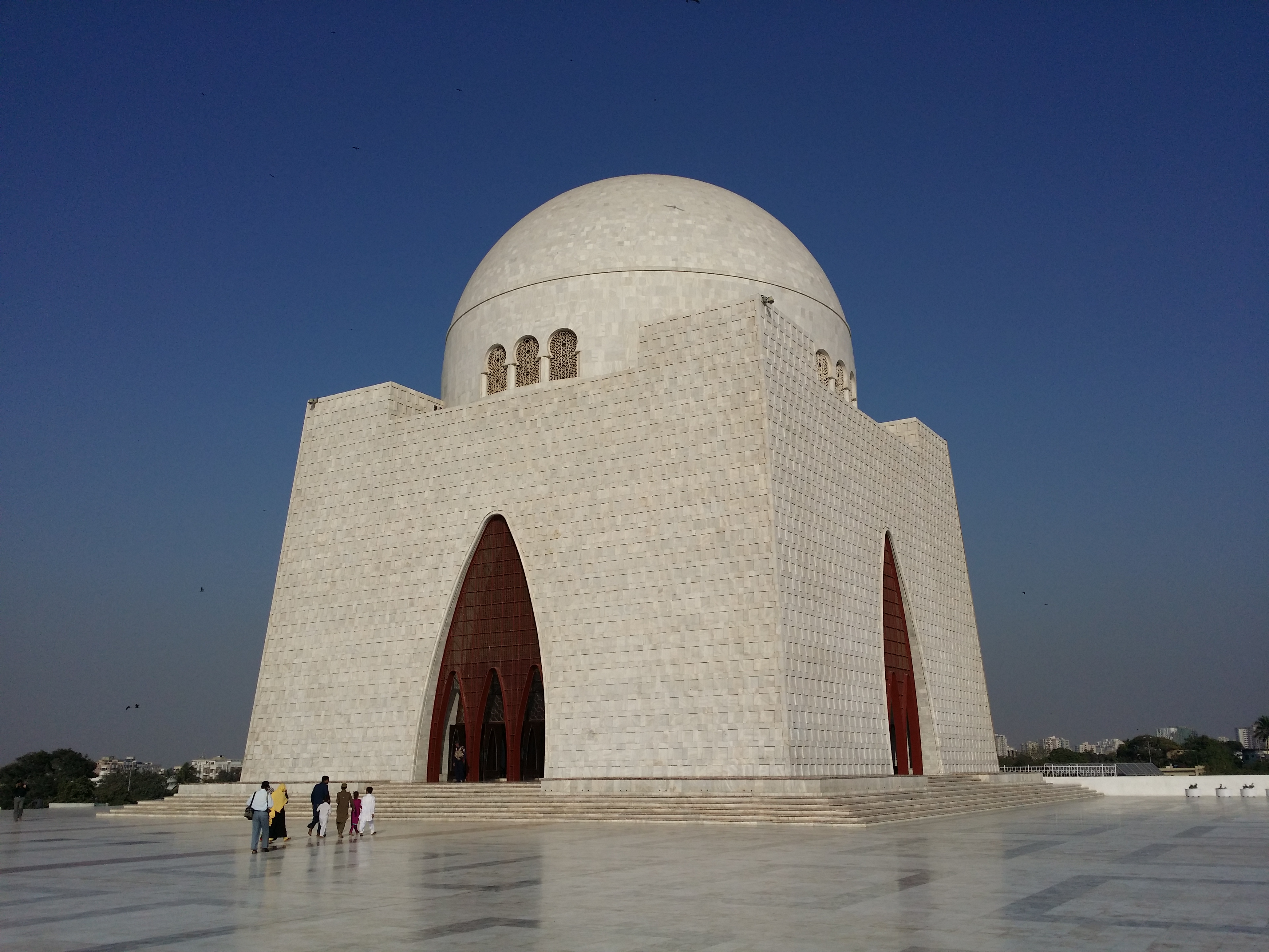 Mazar-e-Quaid This is a photo of a monument in Pakistan identified as the SD-36